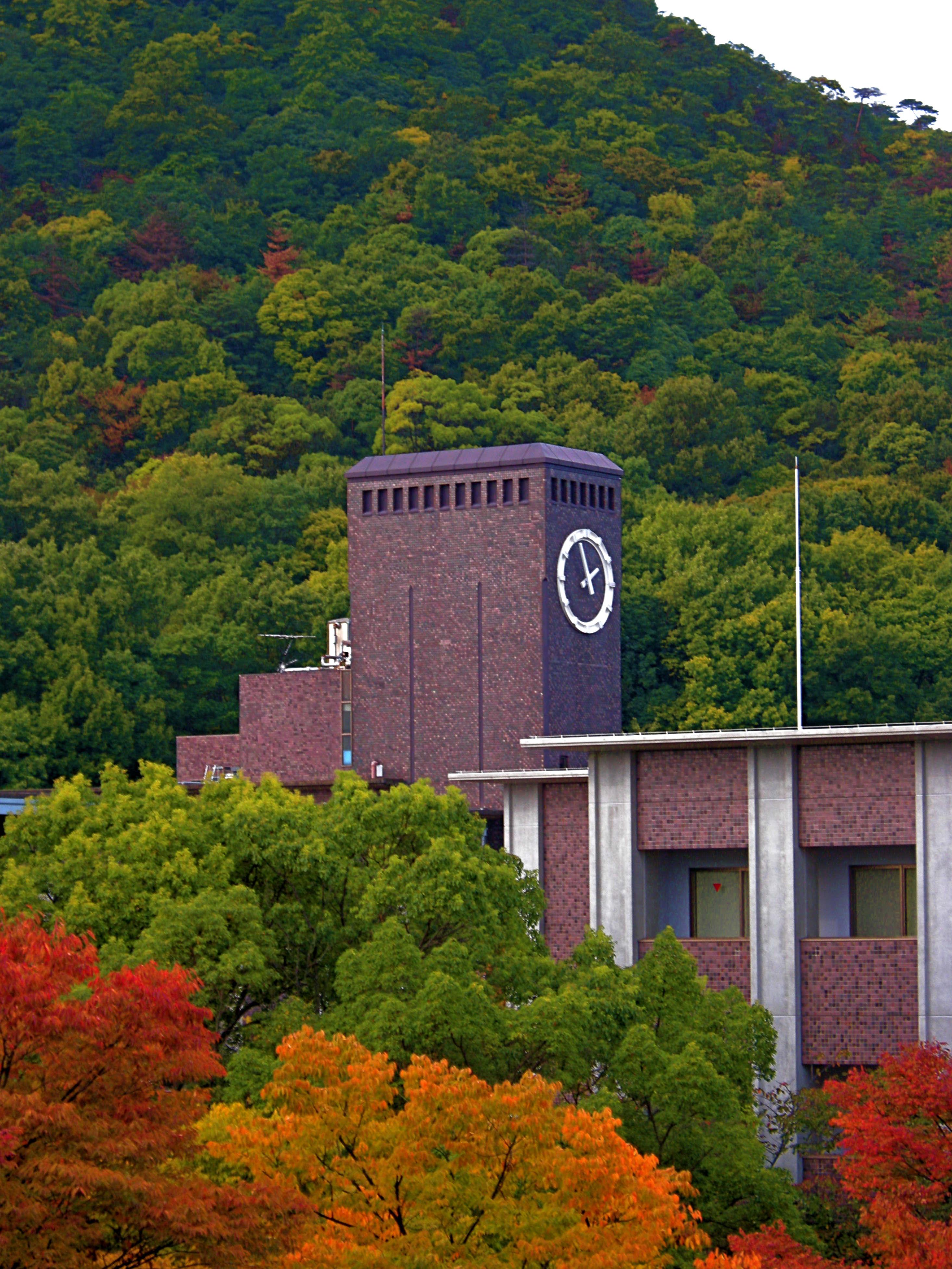 Clock Tower of Zonshinkan Hall (Kinugasa Campus, Ritsumeikan University, Kyoto, Japan)